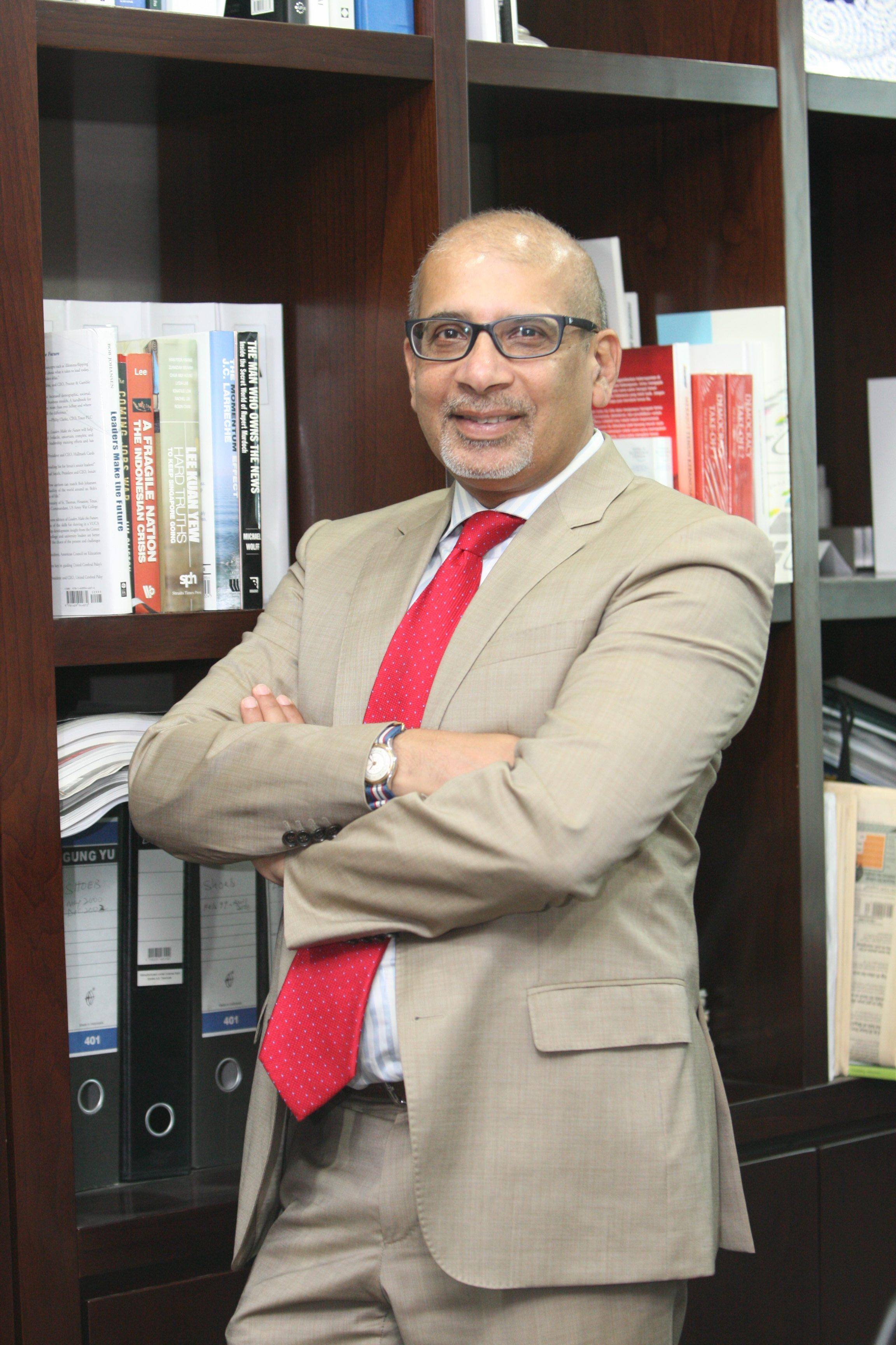 Shoeb Kagda founder Indonesia Economic Forum